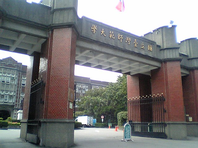 The Front door of National Taiwan Normal University on Hoping road.中文（台灣）: 國立台灣師範大學和平校區（本部）正門。